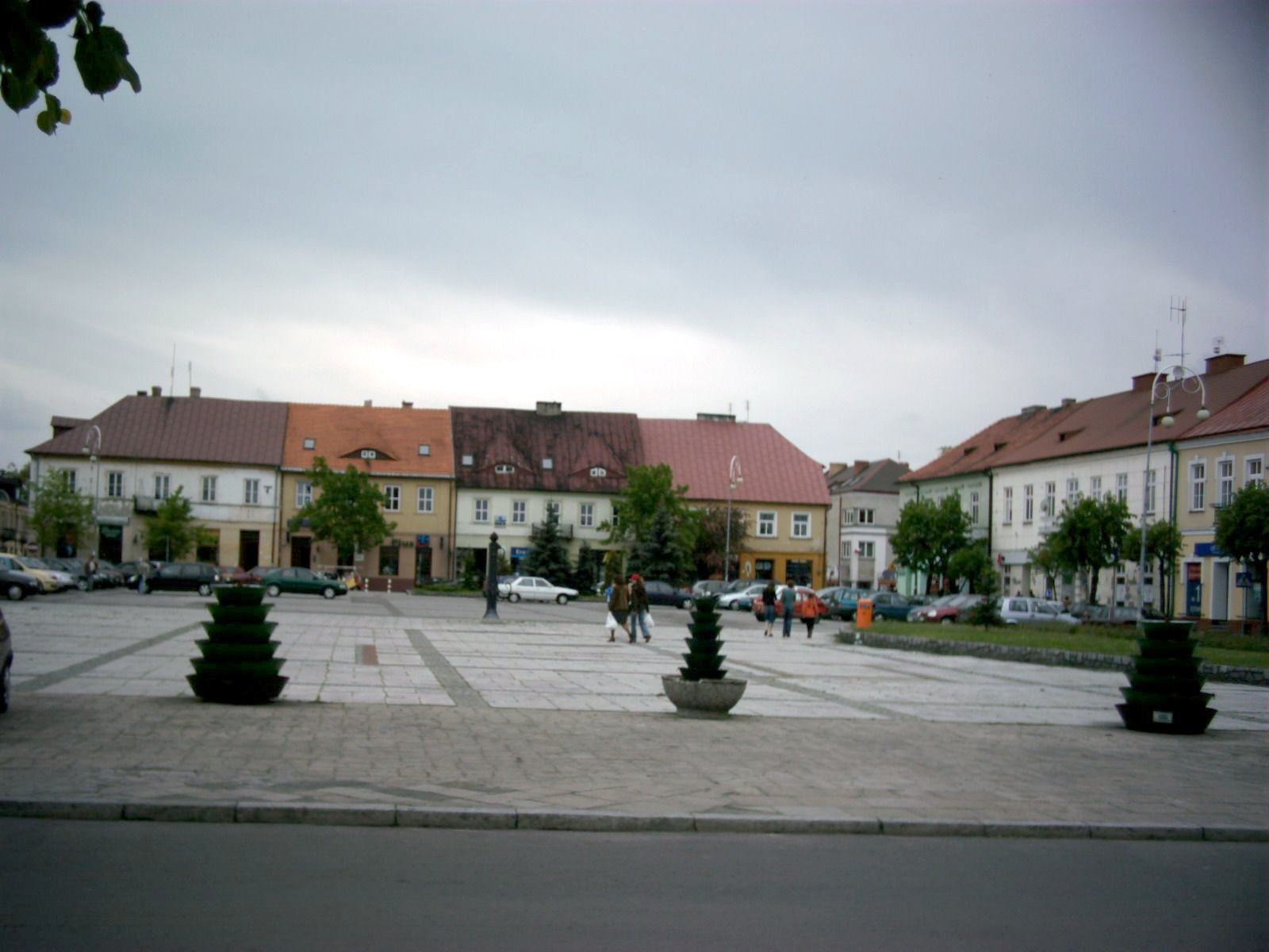 Market on old city